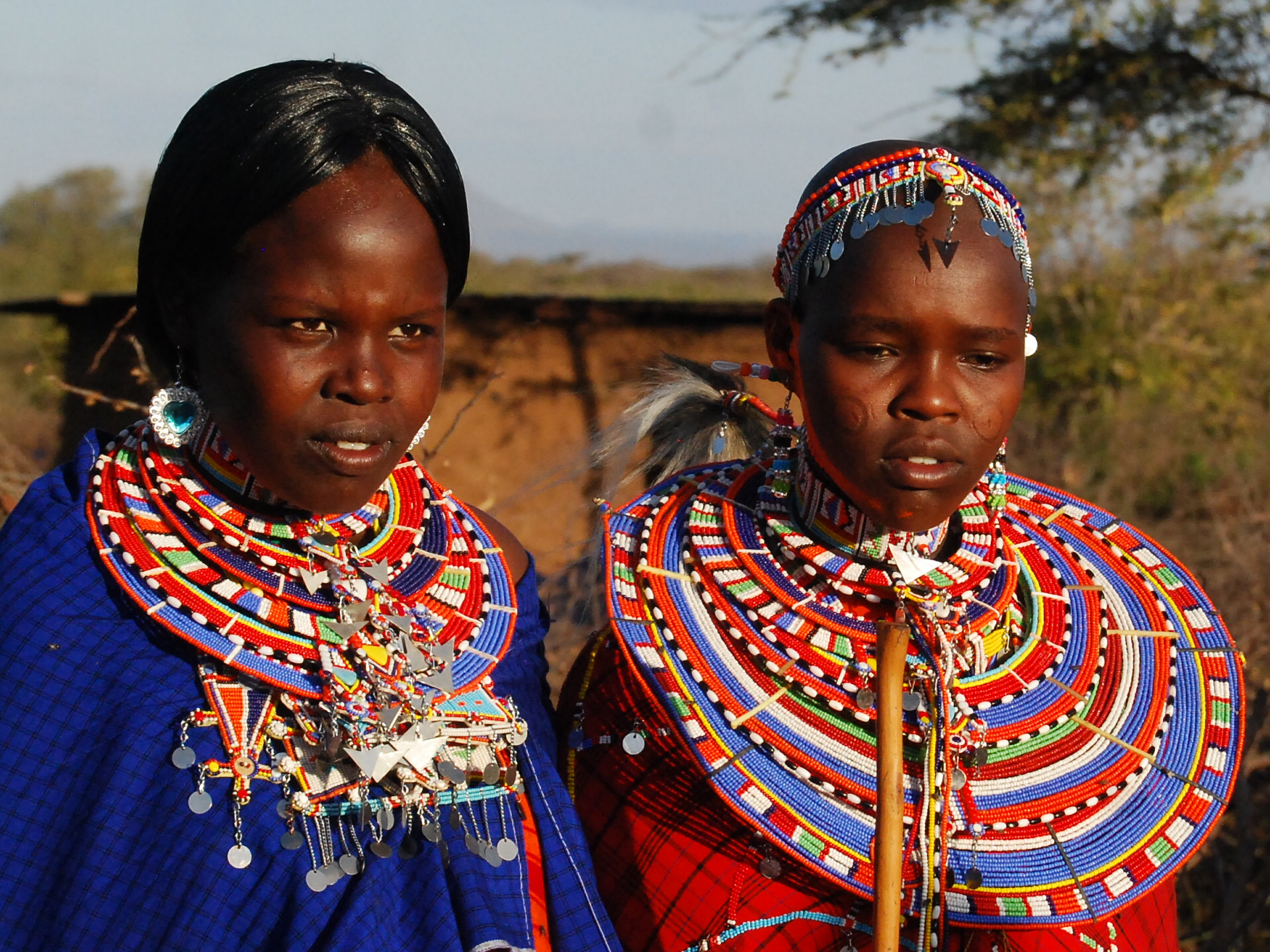 This is an image of Cultural Fashion or Adornment from Kenya